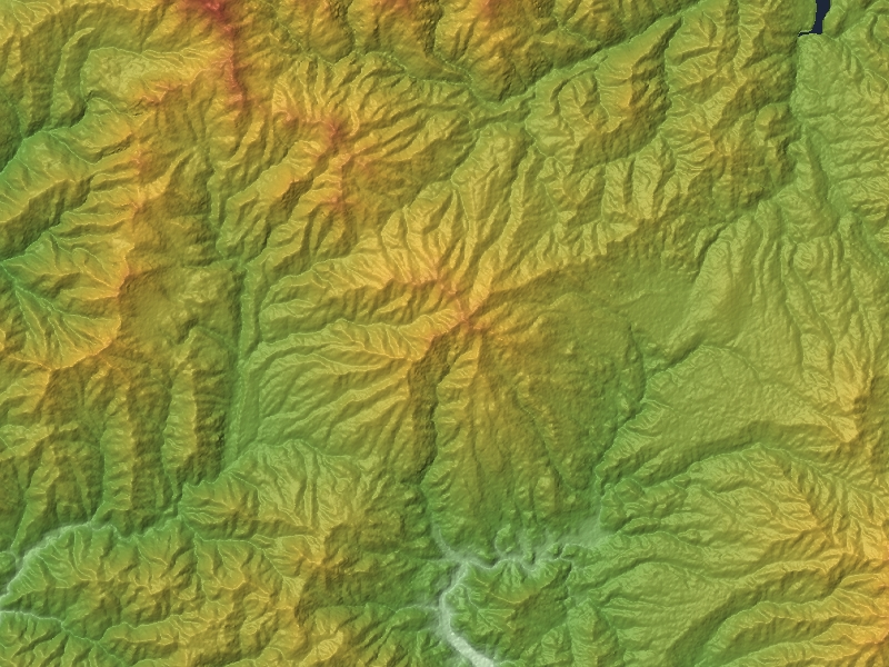 Around Dainichigatake (Mount Dainichi) in Gifu Prefecture, Honshu, Japan.